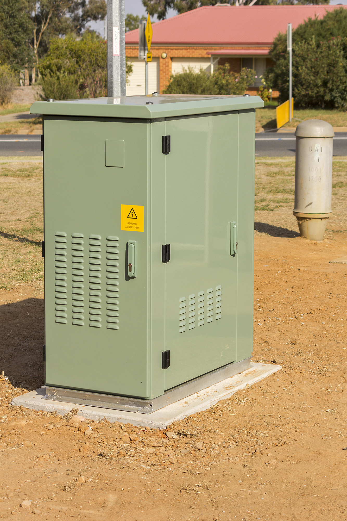 National Broadband Network fibre to the node cabinet located on Pugsley Ave, Estella.